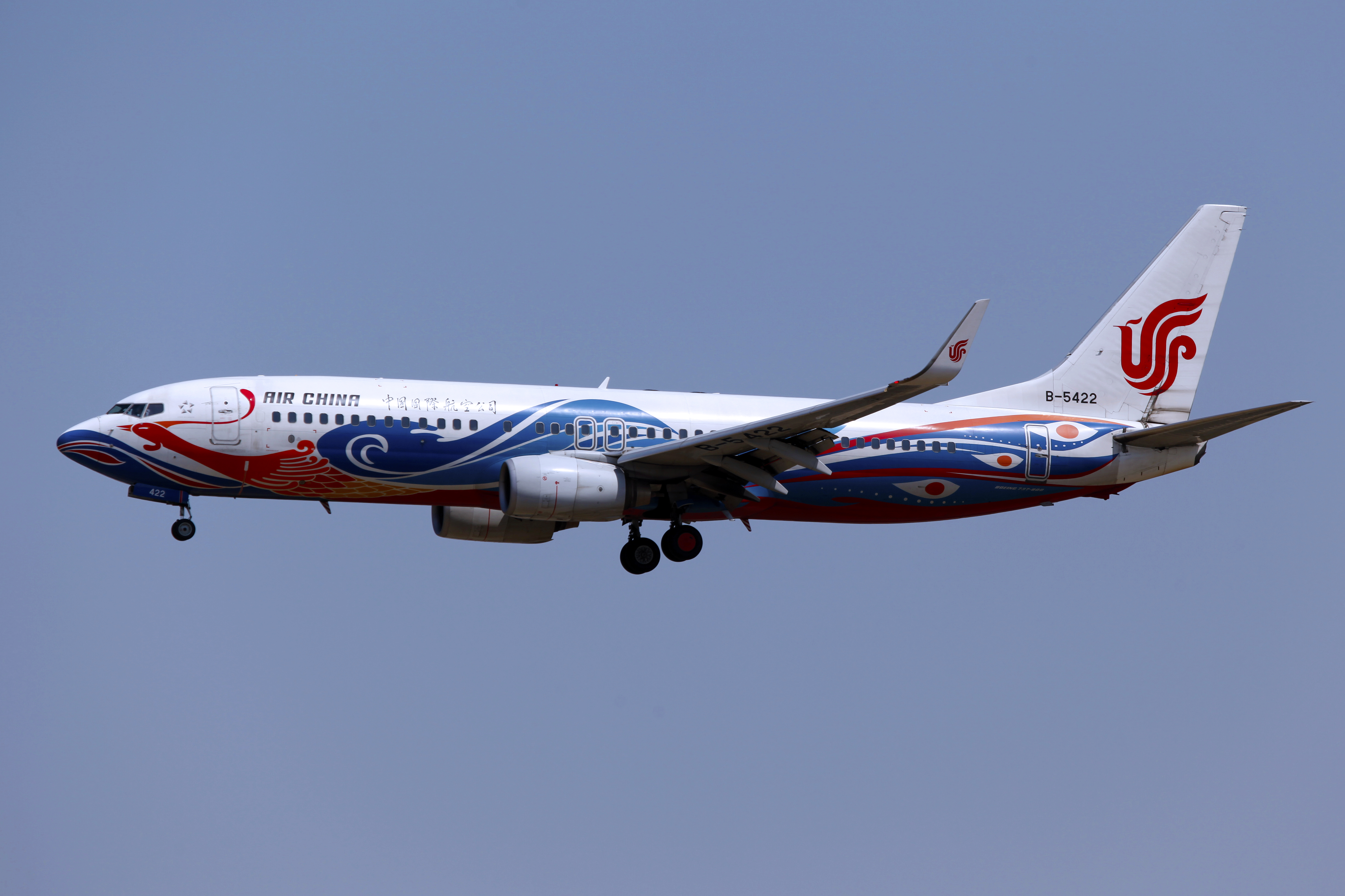 B-5422 | Air China | Boeing 737-89L(WL) | Phoenix Livery | Beijing Capital International Airport [PEK]